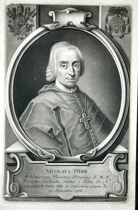 Kardinal Nicolo Oddi (1715-1767), Apostolischer Nuntius in Köln und Luzern